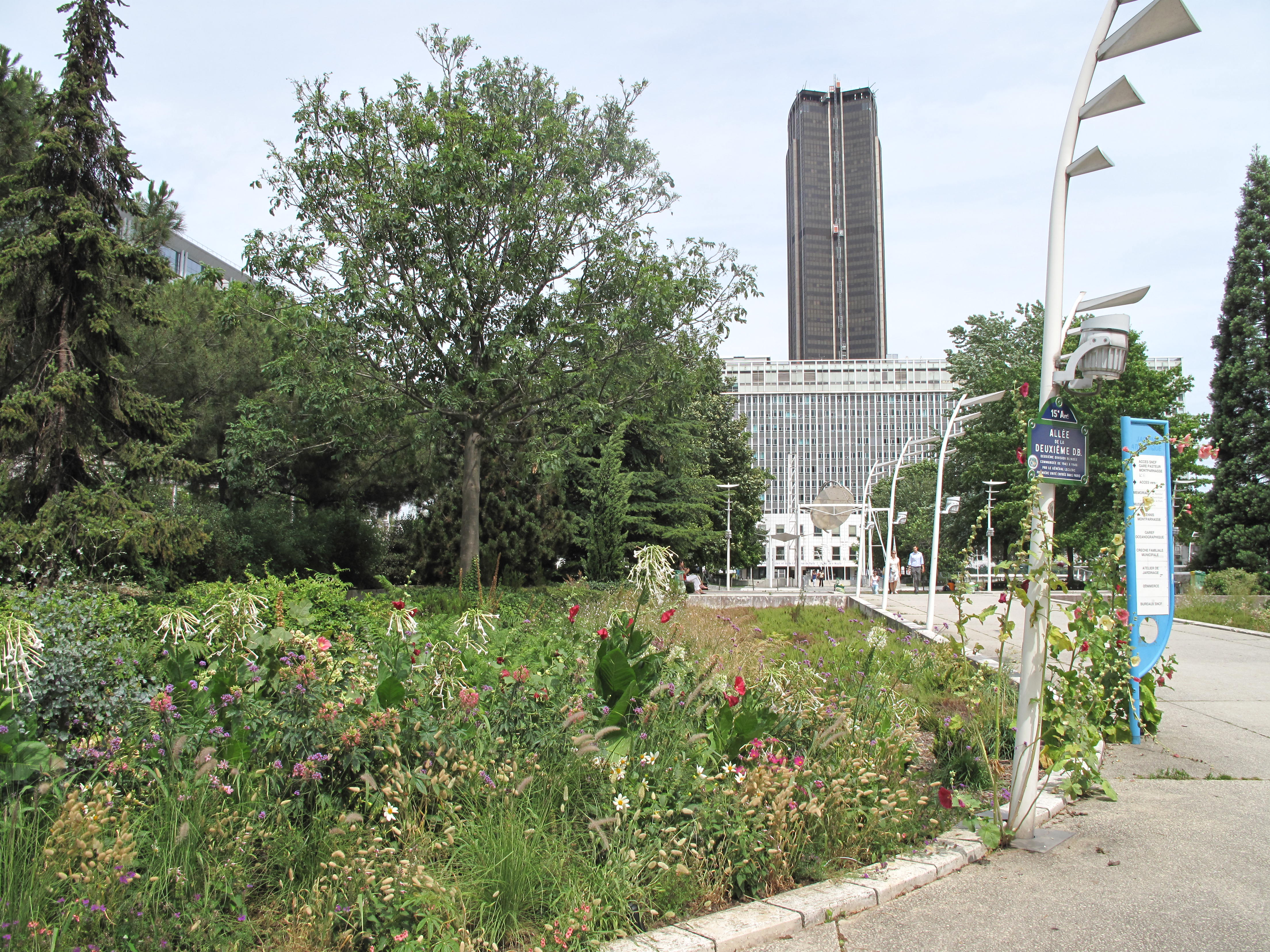 Jardin Atlantique above railways of the gare Montparnasse, Paris